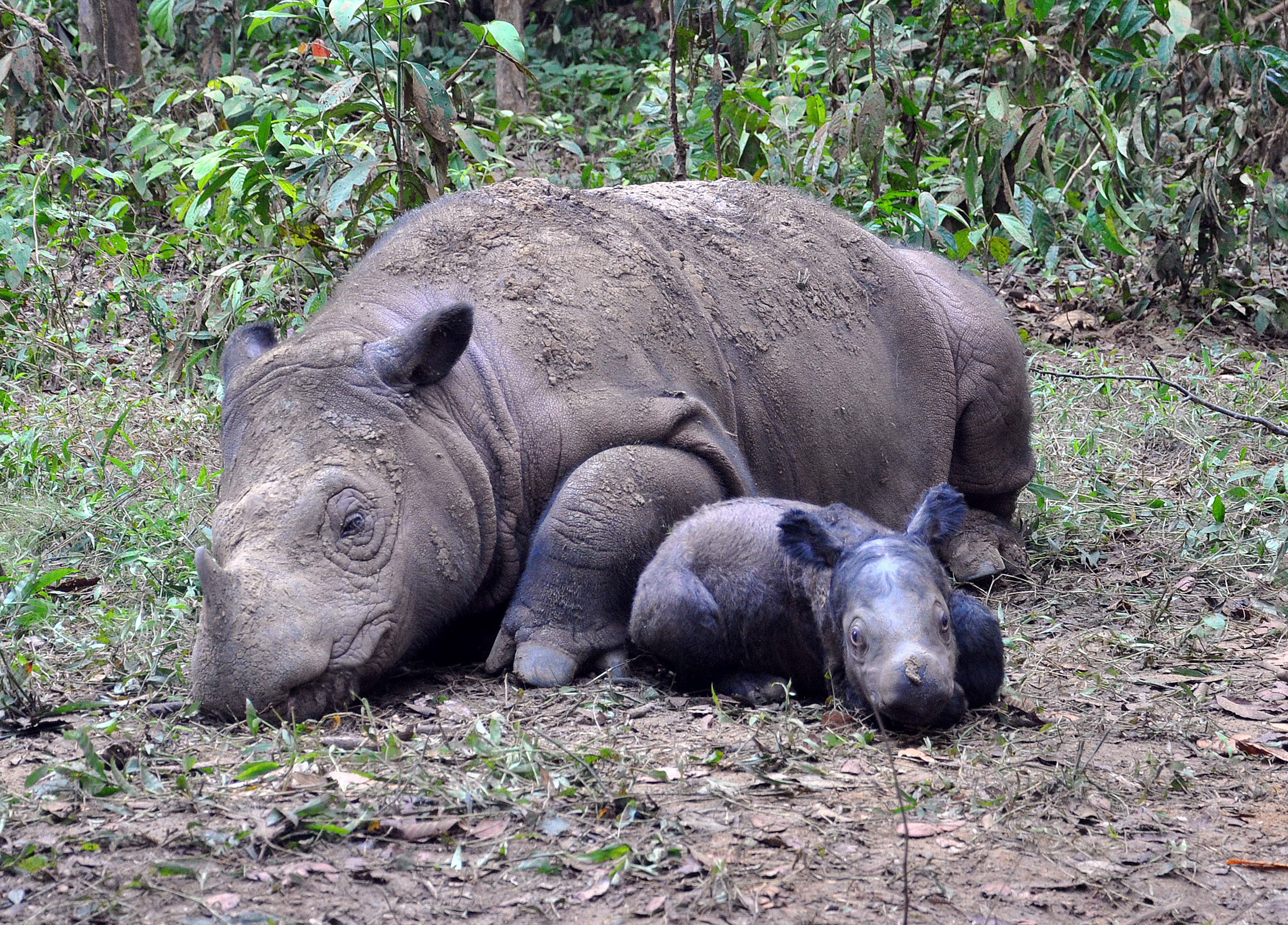 Ratu's keepers and veterinarians will keep a close eye on mother and baby in the months ahead, gathering critical information about maternal care and infant development, which is very sparse for this critically endangered species.